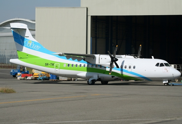 ATR42-320 Tiko Air after finished paintjob in Toulouse